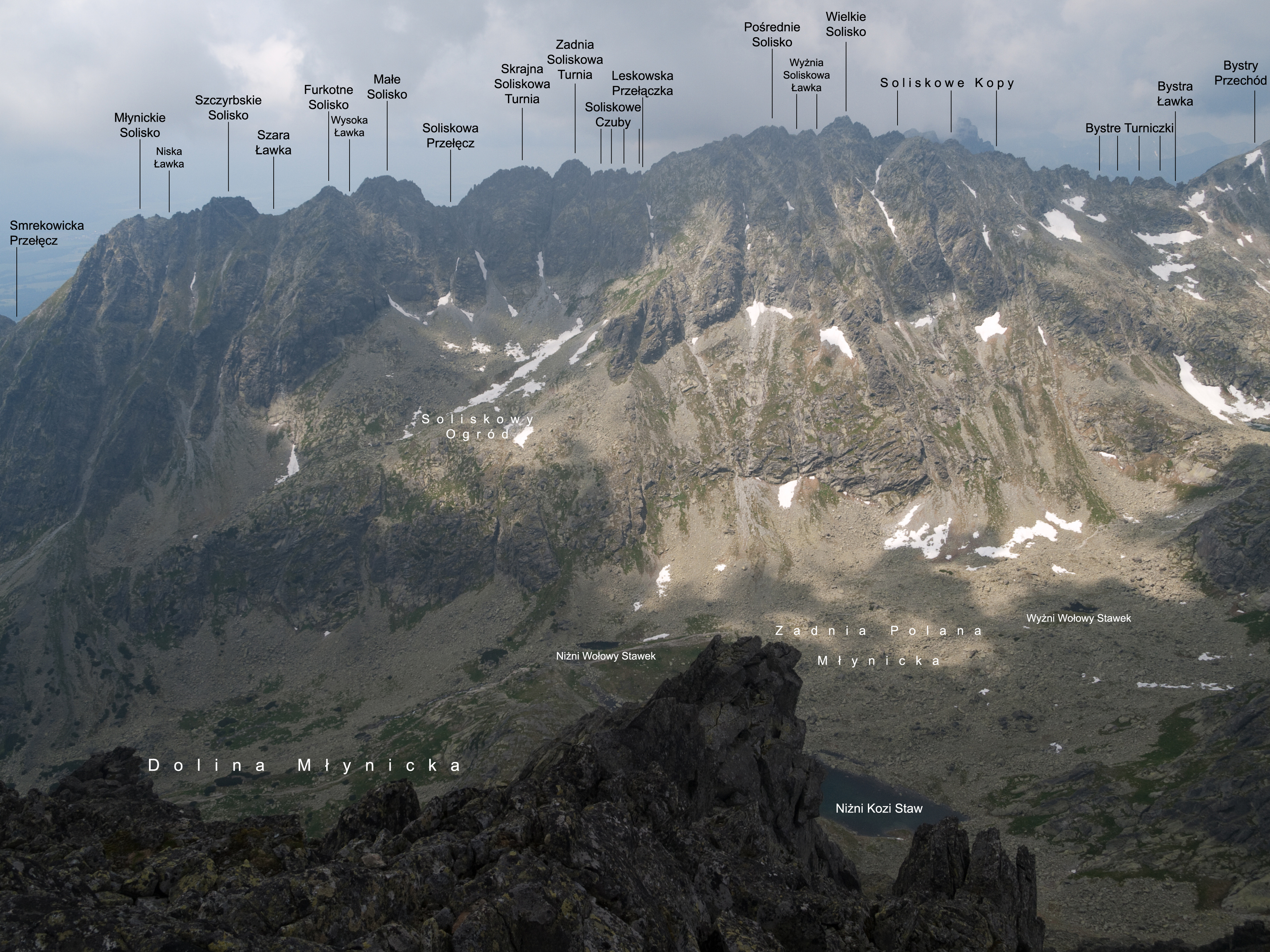 Solisko Ridge – view from the east (Polish captions).